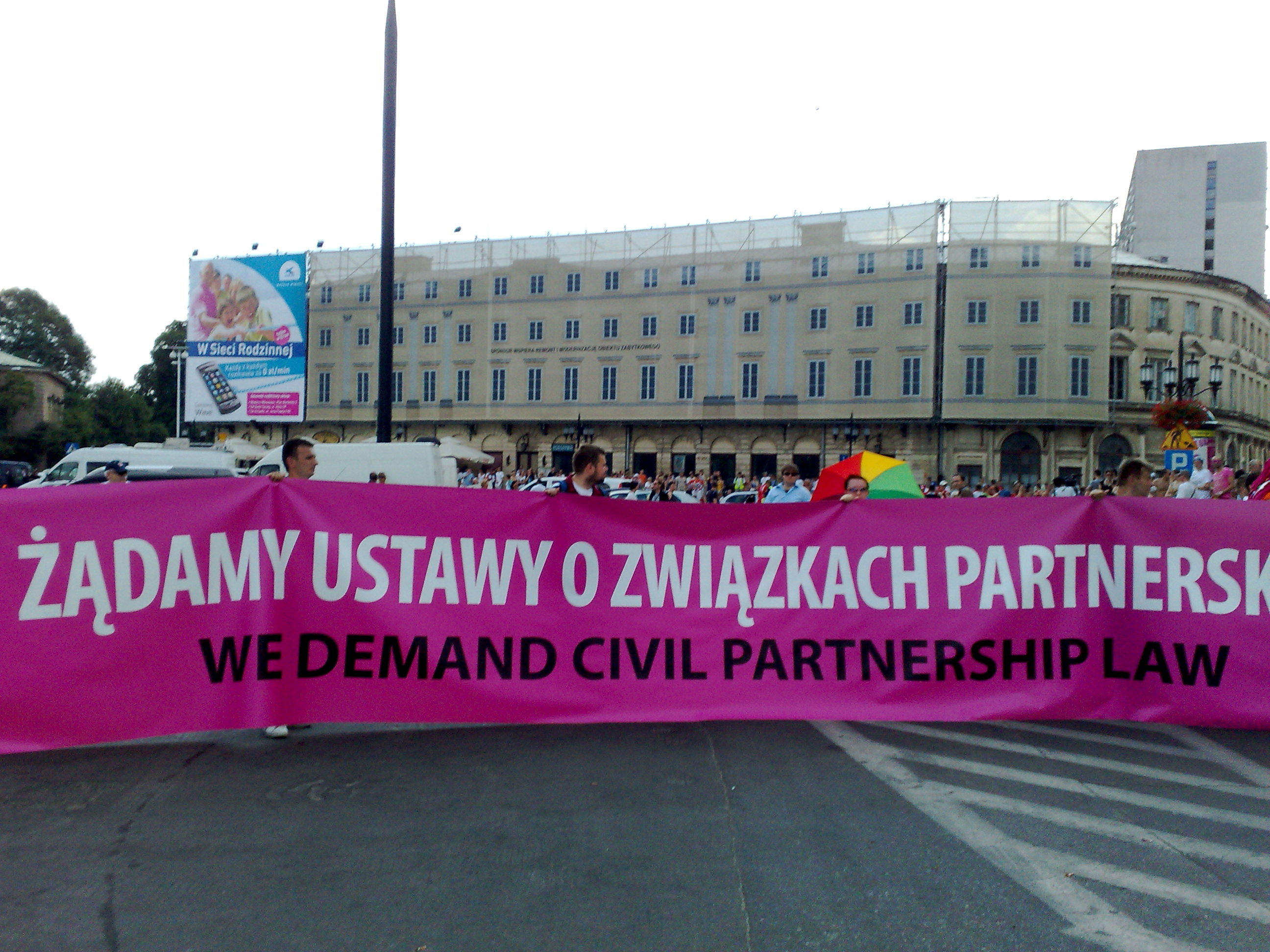 Europride 2010 in Warsaw